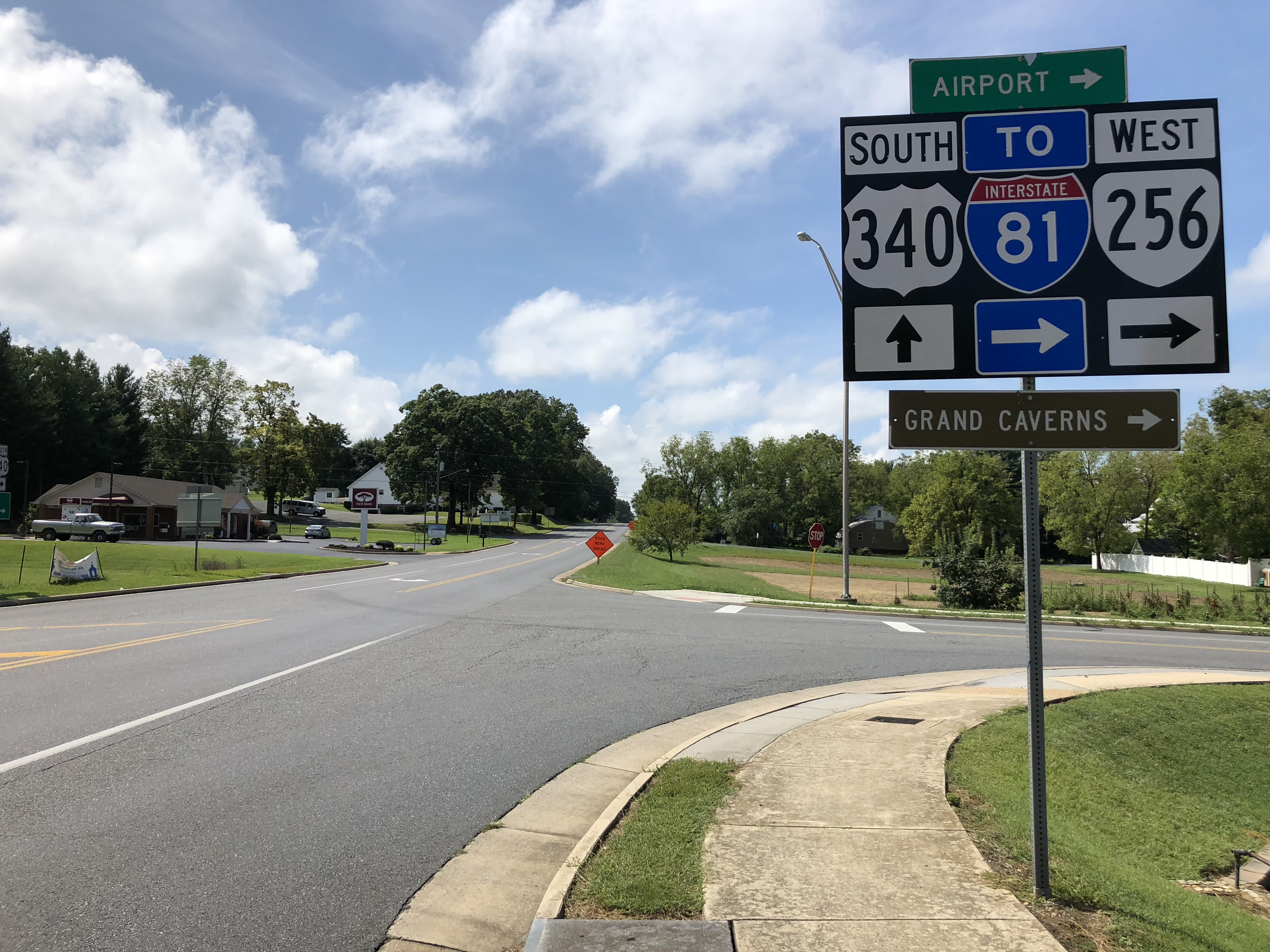 View south along U.S. Route 340 (Augusta Avenue) at Virginia State Route 256 (3rd Street) in Grottoes, Rockingham County, Virginia